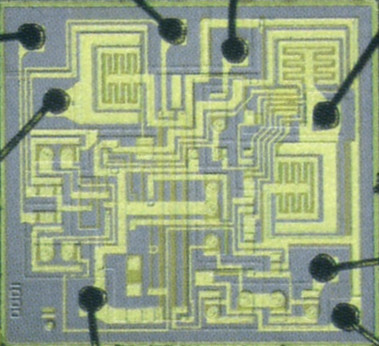 Die shot of the first 555 timer IC manufactured in 1971.